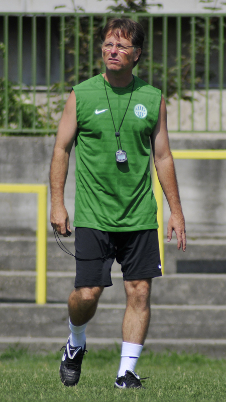 László Prukner, Hungarian football coach.